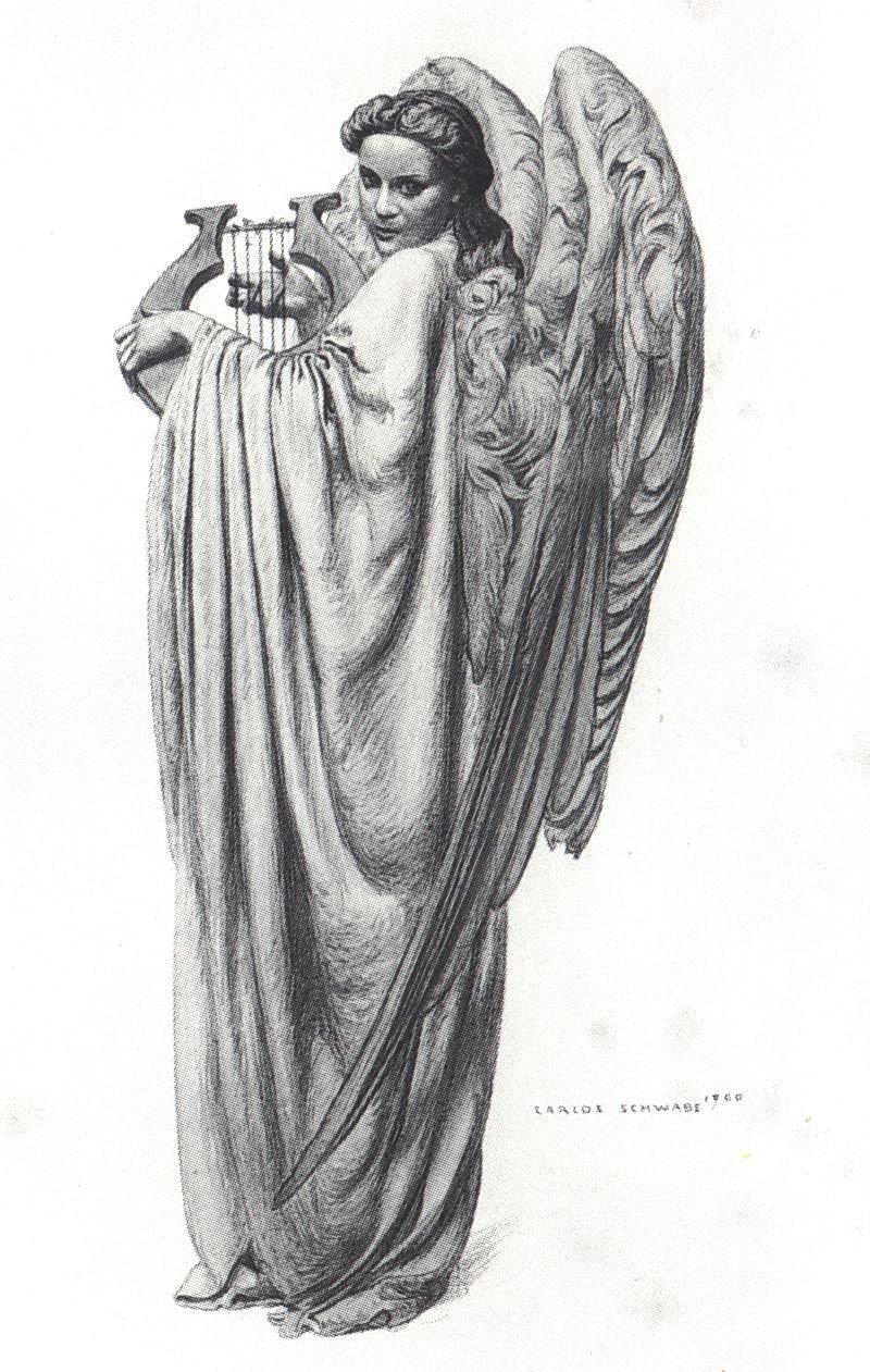 Altona (Germany)